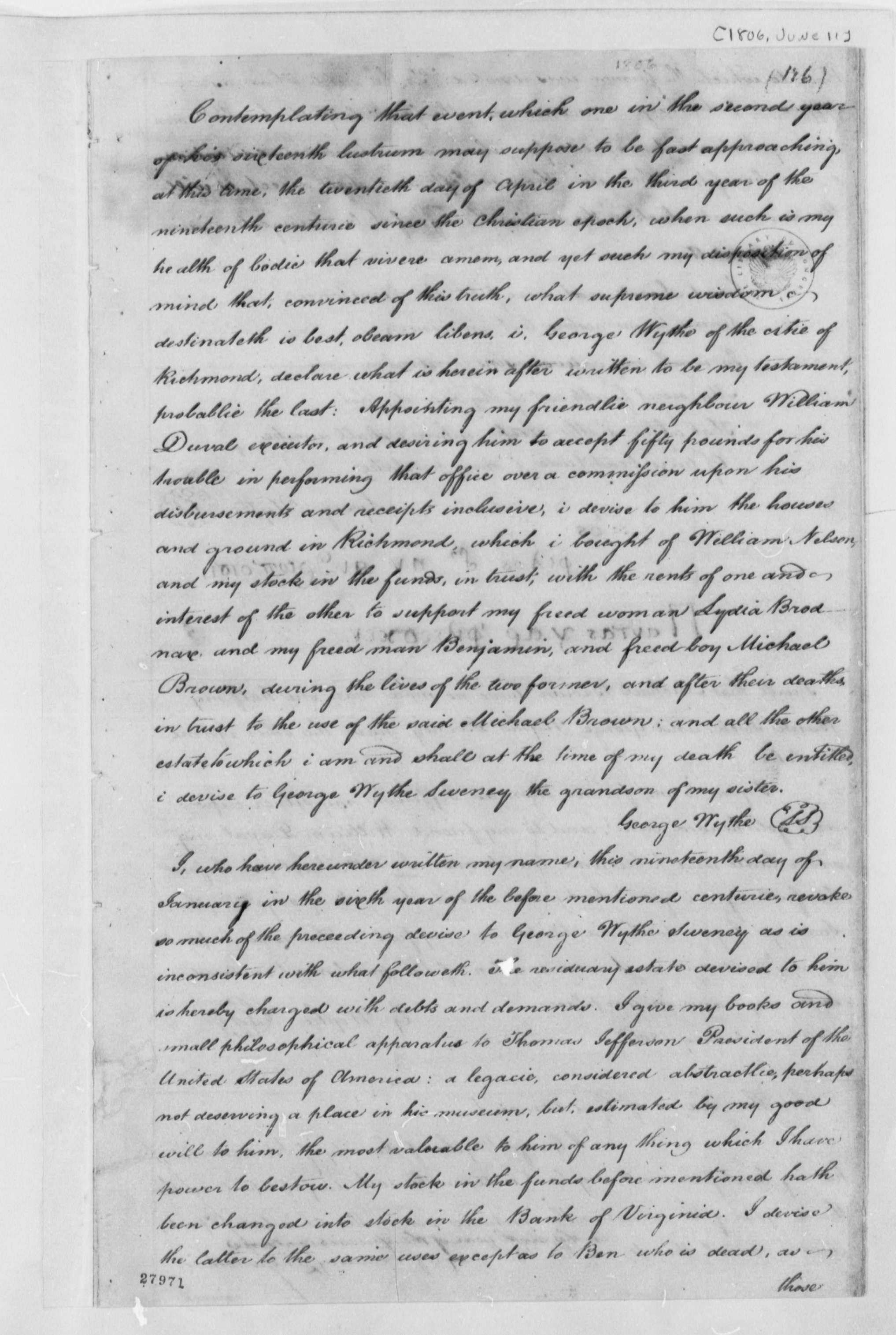 The last will and testament of George Wythe of Virginia, in which he leaves his books and his "small philosophical apparatus" to President Thomas Jefferson. Thomas Jefferson Papers, Series 1, The Library of Congress, Washington, D.C.